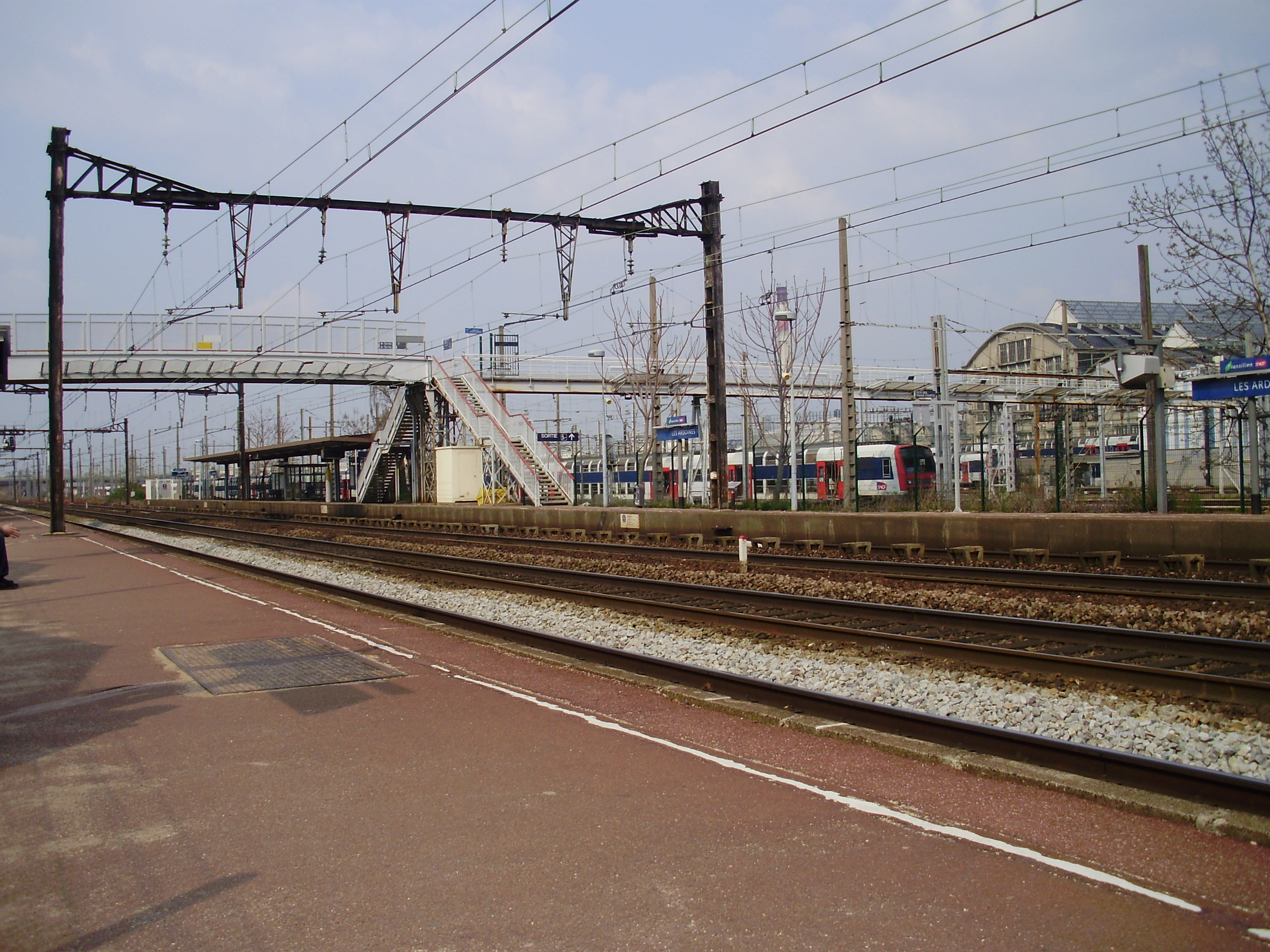 Les Ardoines station, in Vitry-sur-Seine, Val-de-Marne, France - view of the depot from platform towards Paris